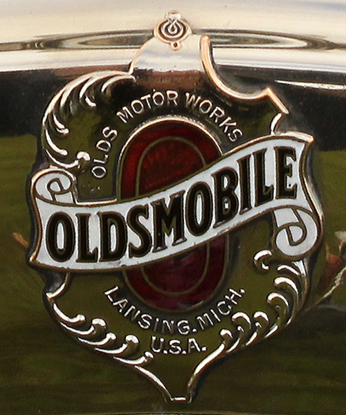 Oldsmobile logo